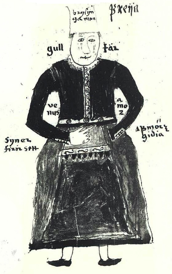 An illustration of the Norse goddess Freyja, from an Icelandic 17th century manuscript. A scan of a black and white photography.